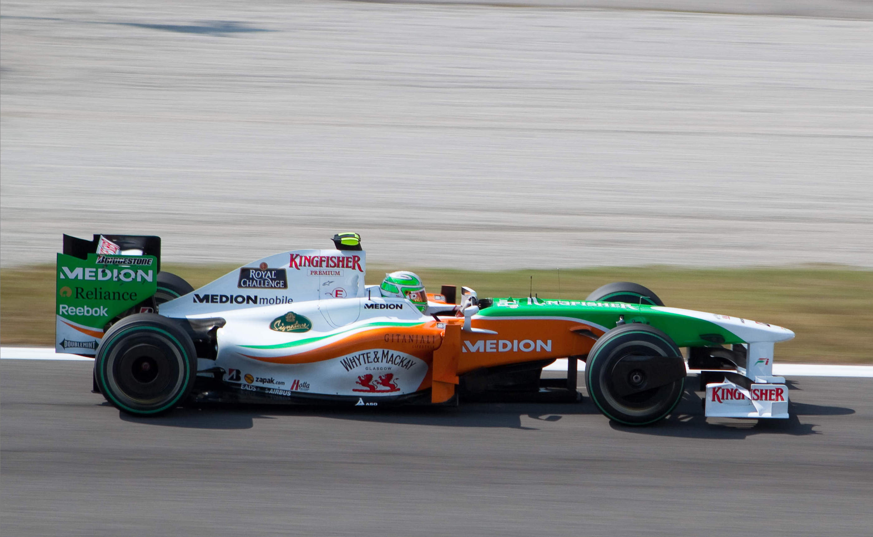 Vitantonio Liuzzi driving for Force India at the 2009 Italian Grand Prix.